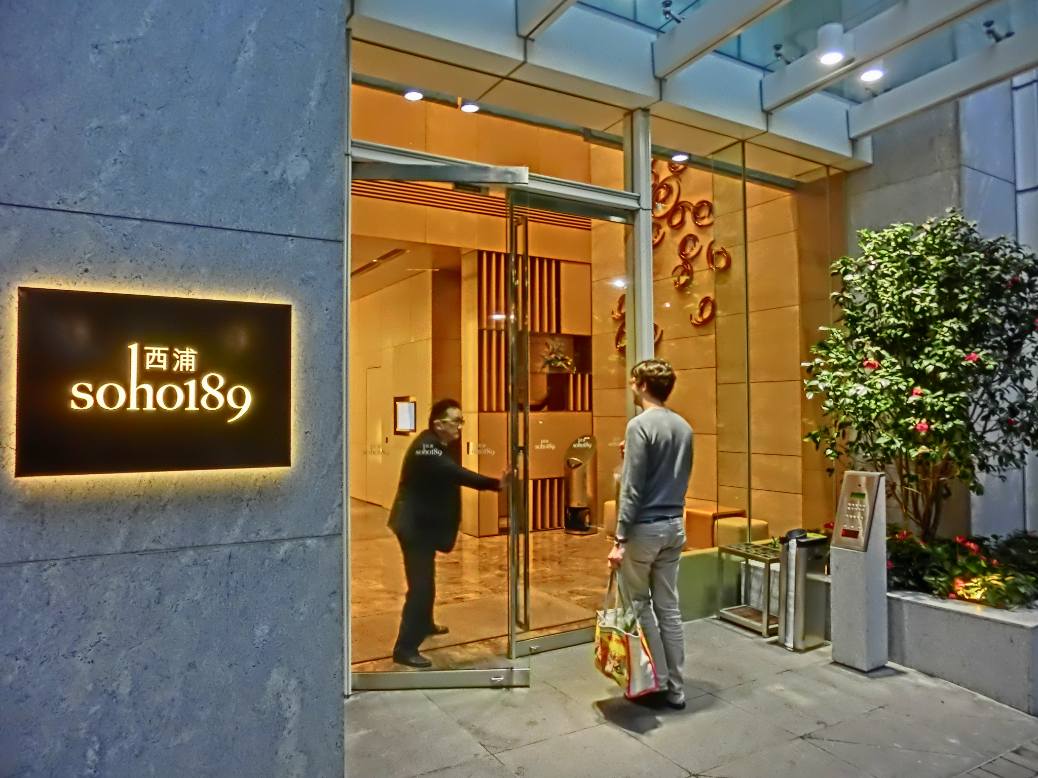 香港島西環zh:西蒲Soho189, Li Sing Street, Queen's Road West, Sheung Wan, Hong Kong